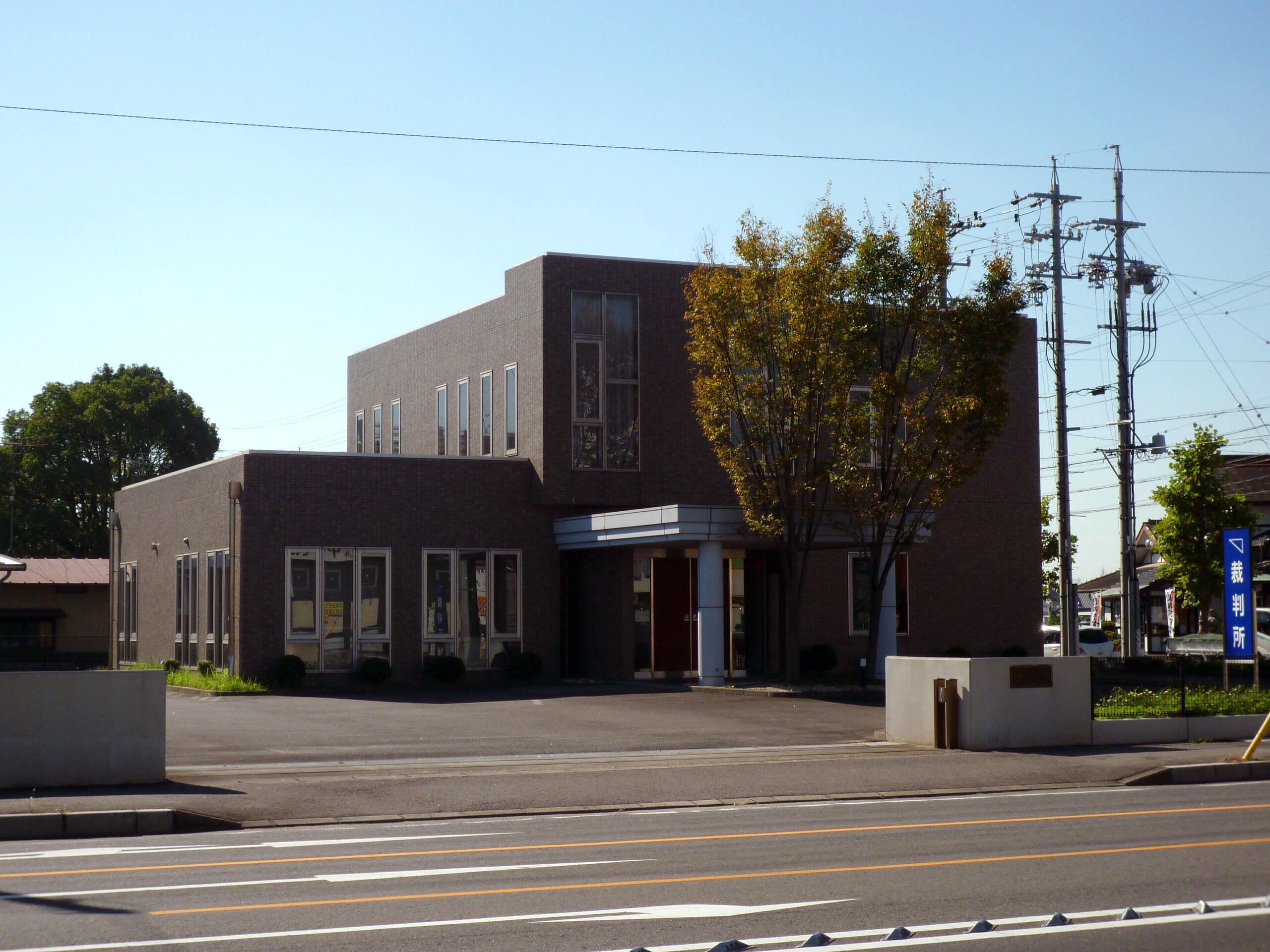 The "Suzuka Summary Court" in Suzuka, Mie, Japan.